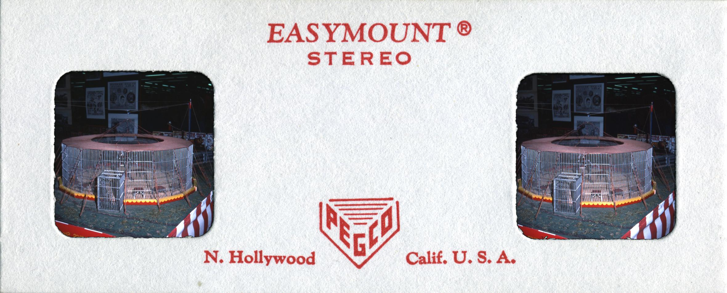 After market cardboard slip in mount this mount was available well into the 1990s.